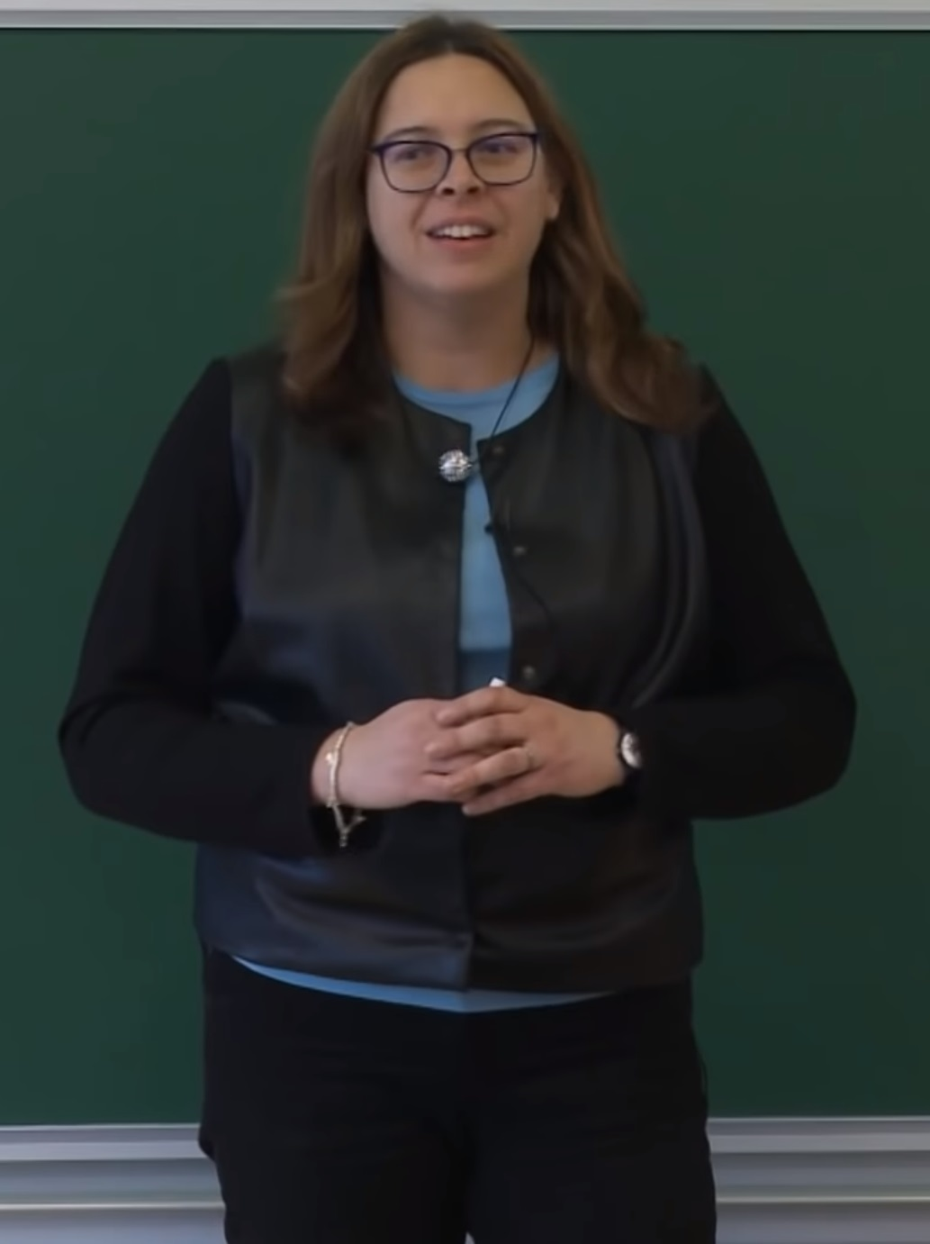 Italian mathematician Corinna Ulcigrai lectures on Chaotic Properties of Area Preserving Flows in 2019.